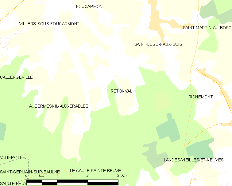 Map of French municipality Rétonval